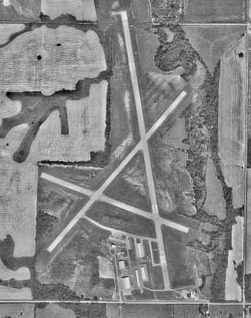 USGS digital orthophoto of Atkinson Municipal Airport in Kansas